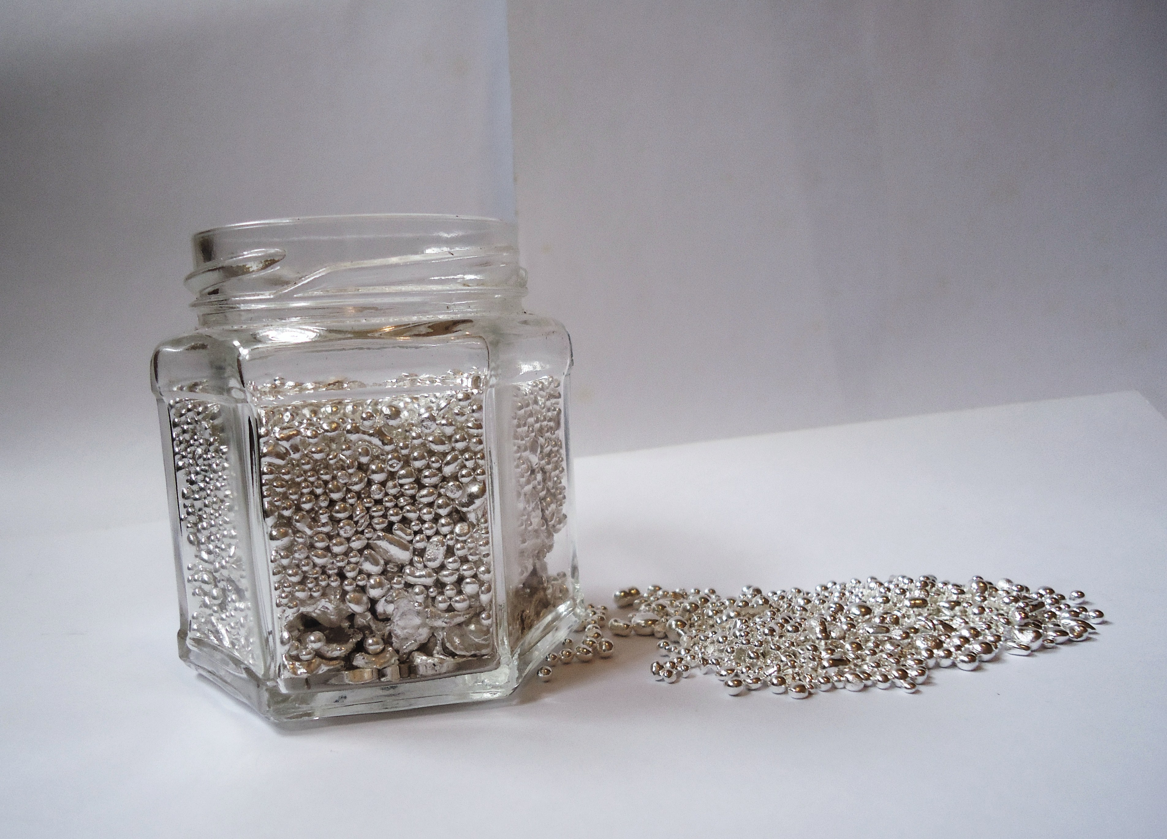 Granulated fine (or pure) silver.